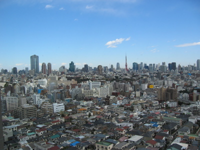 View of Tokyo looking Northeast from the Westin Ebisu, March 2004